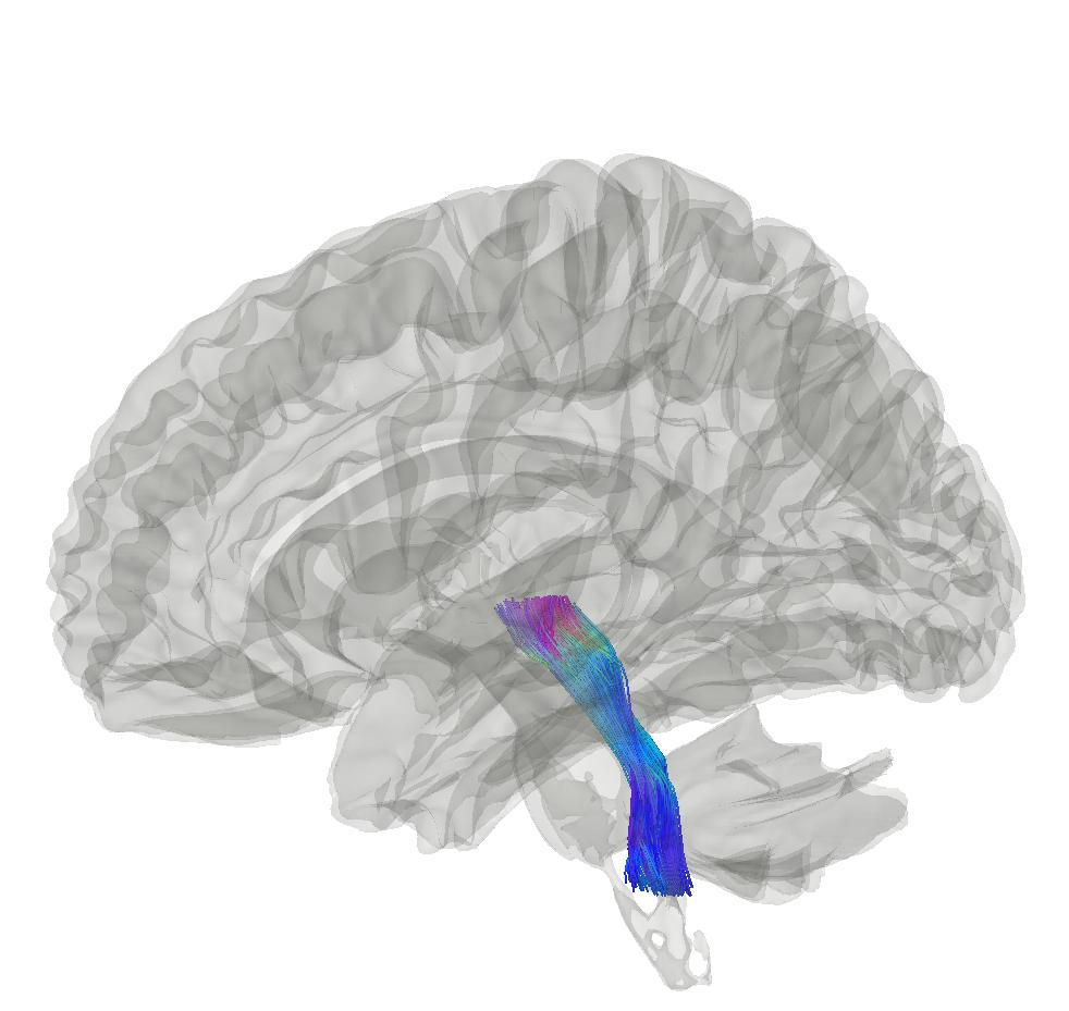 Tractography showing spinothalamic tract on a population-averaged template